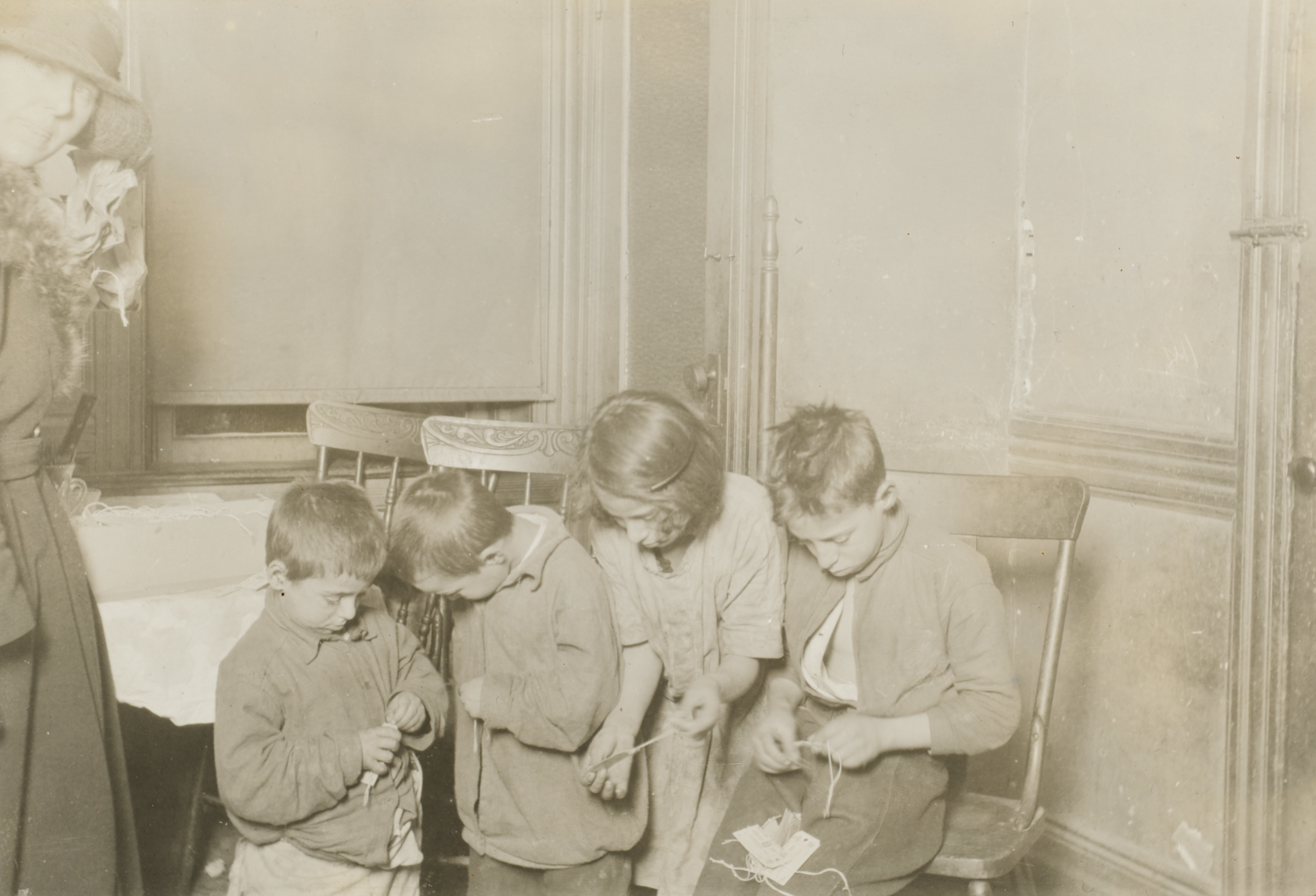 Child labor in the United States, early 20th century Courtesy: Preus museum; Library of Congress; National Child Labor Committee Collection. Hine, Lewis Wickes Location: Newark, New Jersey, USA 1923. Of a family of 7 children, all but 2 work stringing tags. The oldest child is 12. The nurse of the school which these children attend, reports that they are continually being sent home because of their dirty condition. A little fellow who looked about 6 was quite an expert. The children received 20 cents (US$ 0.20) for stringing a thousand tags.